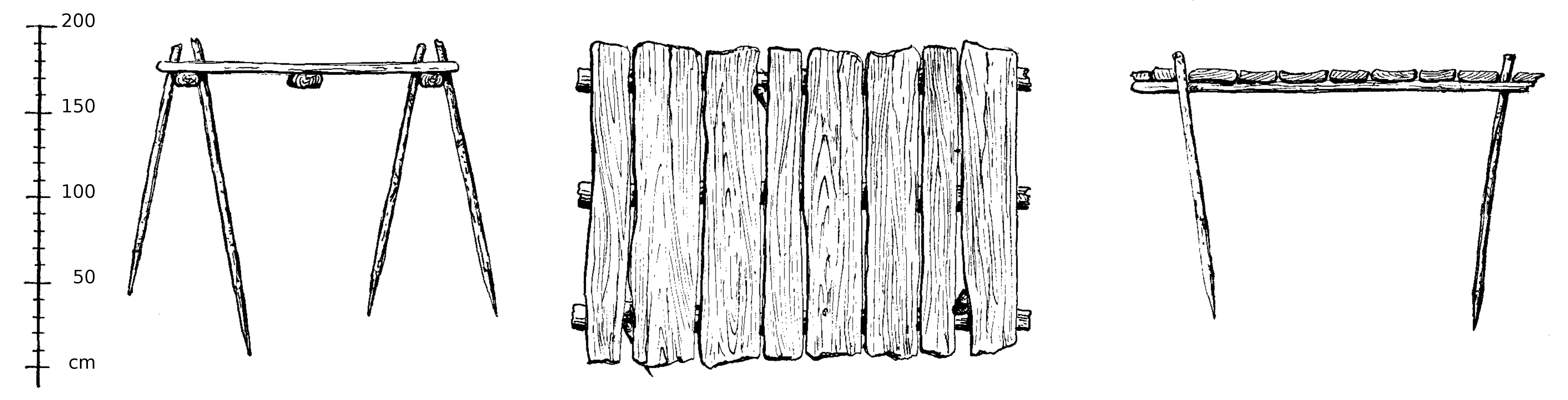 Drawing of the northern, younger Bog Trackway No I of Wittmoor at Hamburg Duvenstedt, Hamburg-Lemsahl-Mellingstedt and Norderstedt Glashütte, Germany. The trackway was discovered in 1898 and dates back to 7th century AD. The drawing shows a part of the beginning of the trackway in cross section (left), top view (center) and longitudinal cut (right).